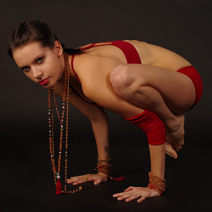 Kakasana (Crow Pose, with bent arms) by Nina Mel, Yoga Teacher